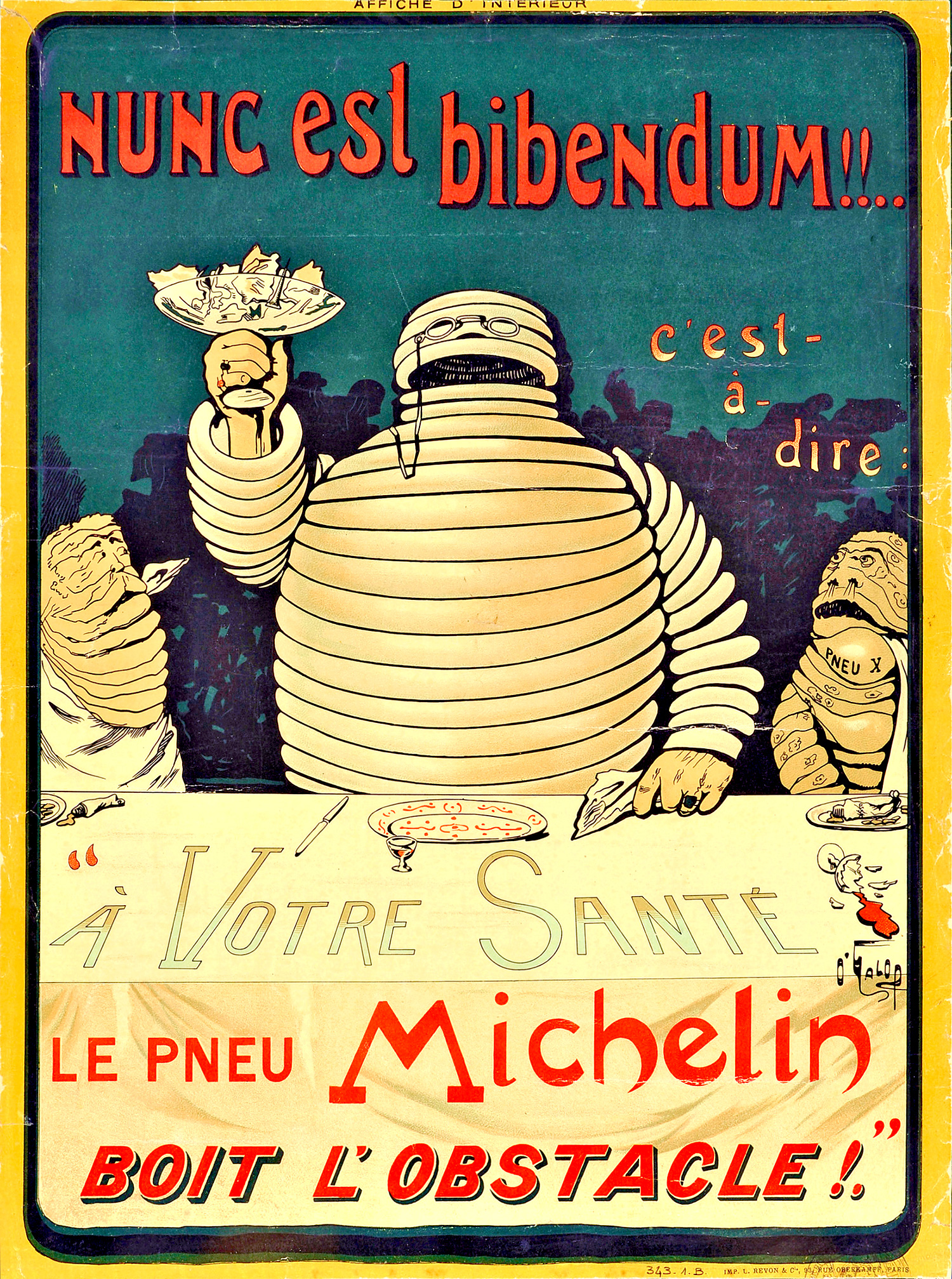 The first depiction of the Michelin Man making a toast. He is also known as Bibendum, possibly because of this poster. The phrase Nunc est Bibendum! is taken from the Odes of Horace.